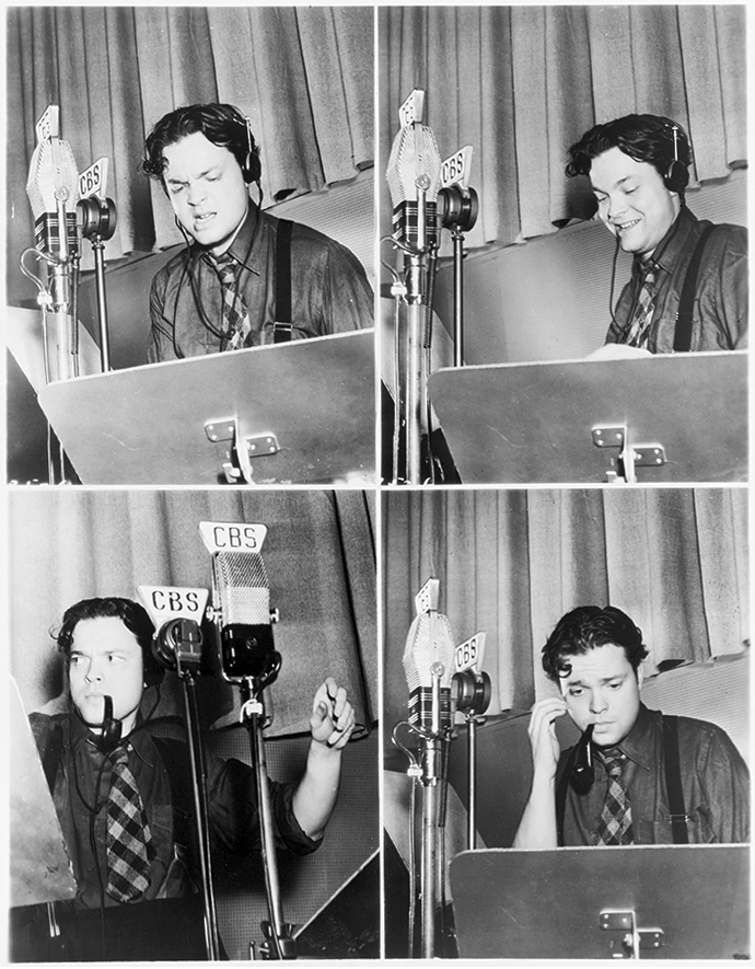 Composite of four photographs of Orson Welles at microphones, rehearsing a broadcast of The Campbell Playhouse for CBS Radio Photograph appeared in The Wisconsin State Journal captioned as follows: Orson Welles, director and star of the Playhouse programs heard over the Columbia network on Fridays, is one of the most dynamic personalities in radio and the theater. His energy is as apparent in rehearsals as when he is actually on the air, as these pictures, taken during a rehearsal, indicate. From left to right, Welles listens to other members of the cast and himself go through the script (with not too much approbation, apparently); he expresses appreciation for a humorous speech in the next pose; building up to a musical crescendo with one hand, he cues in the actors with the other in the third picture, and in the last shot Welles puzzles over what speeches he can cut out of the script to prevent running over the hour.